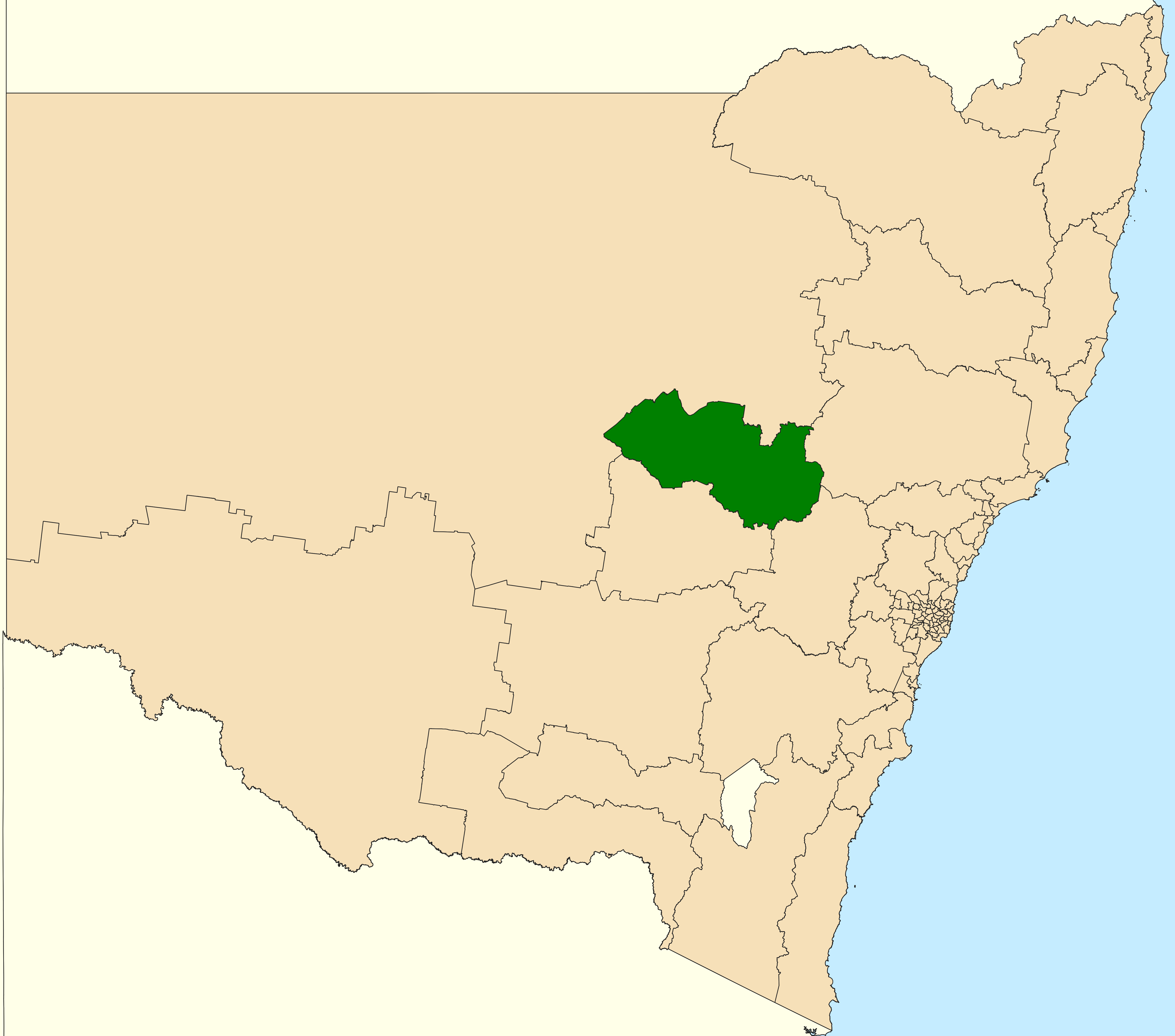 Location of the state electoral district of Dubbo (dark green) in New South Wales as of the 2019 New South Wales state election. Incorporates or developed using Administrative Boundaries ©PSMA Australia Limited licensed by the Commonwealth of Australia under Creative Commons Attribution 4.0 International licence (CC BY 4.0).